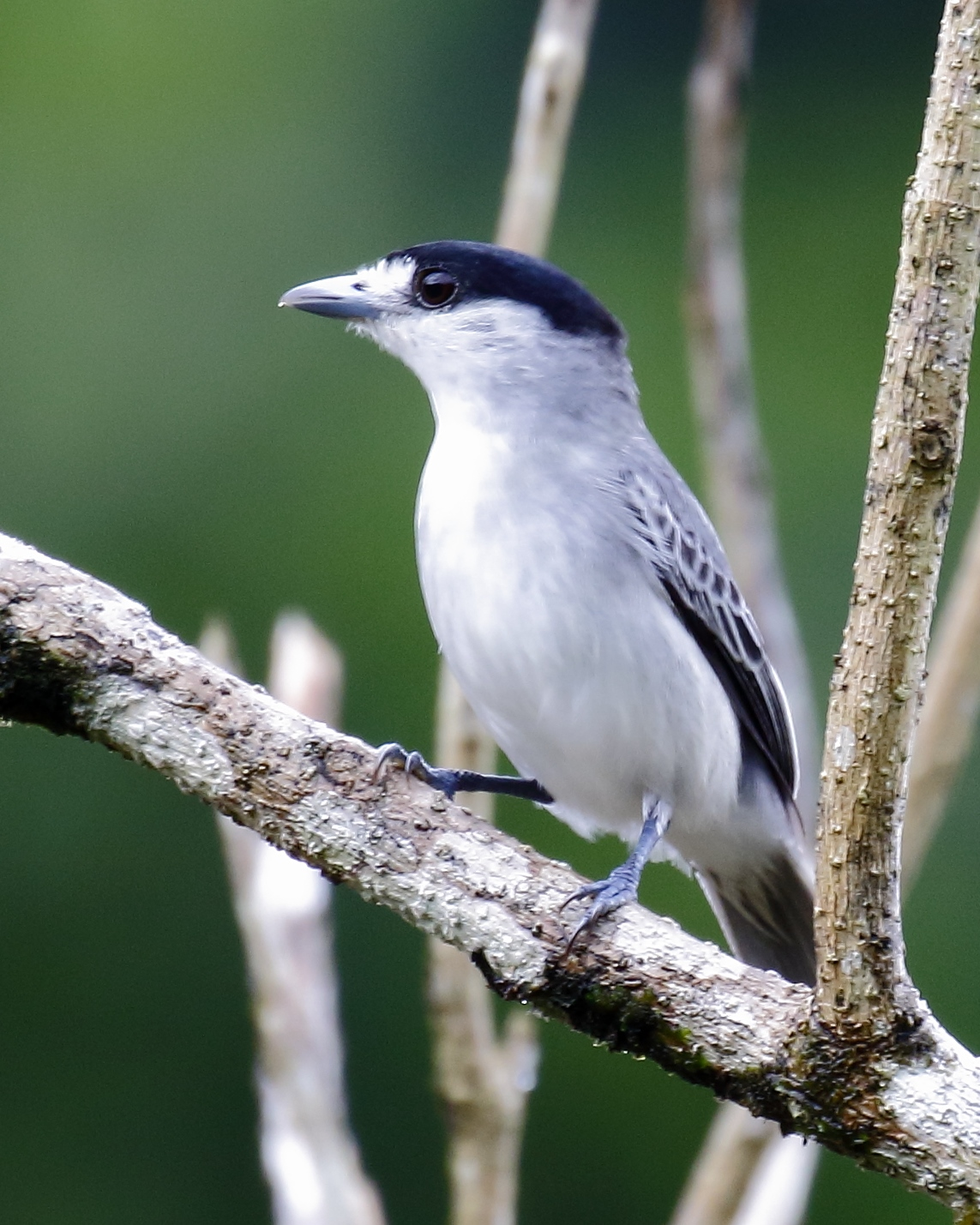 Cinereous becard (male) at Presidente Figueiredo, Amazonas, Brazil